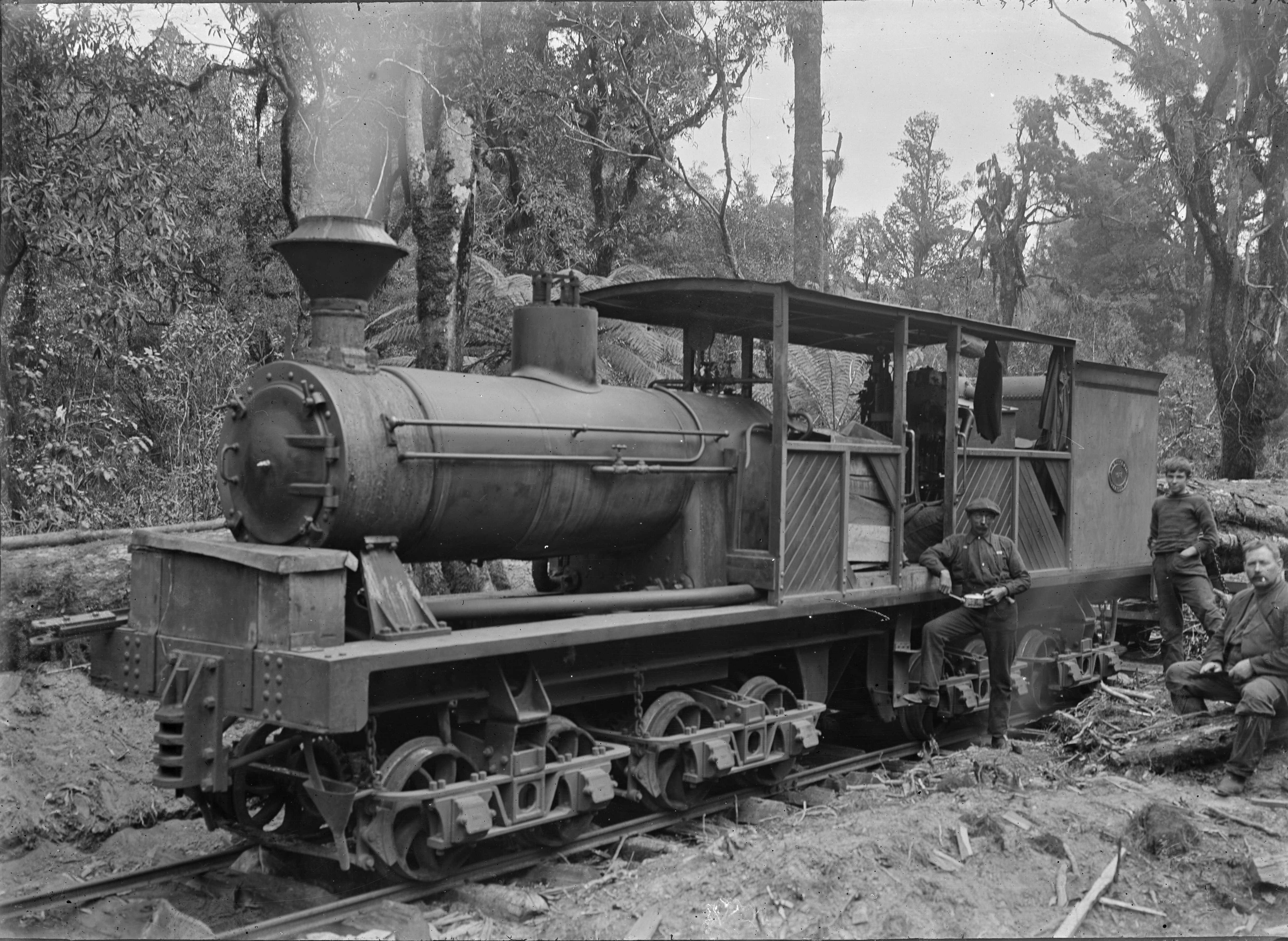 Price 16-wheeler. Geared logging locomotive built in 1912 by A & G Price Ltd. of Thames, New Zealand